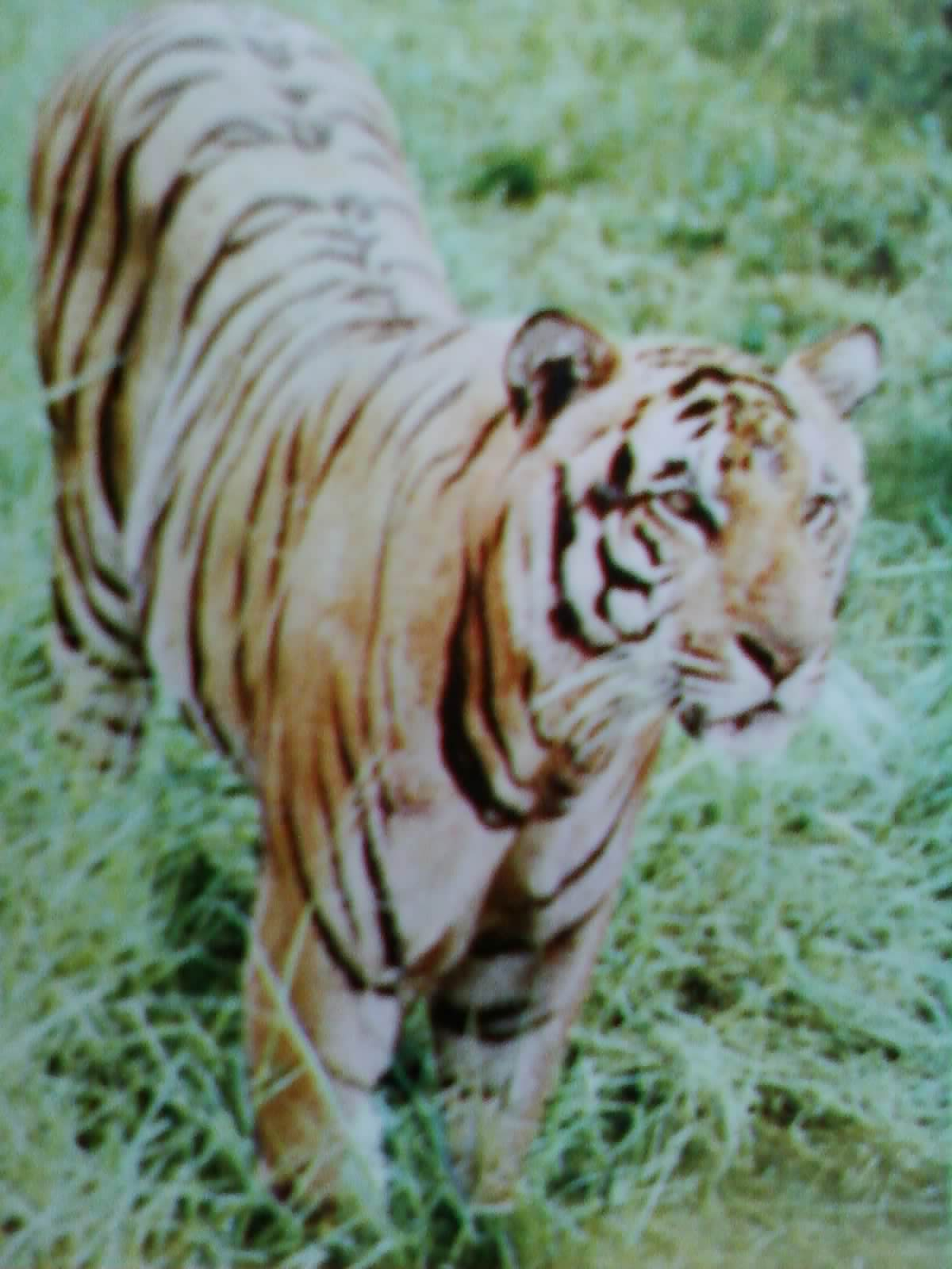 Tiger is a important wild animal in Indian forests.